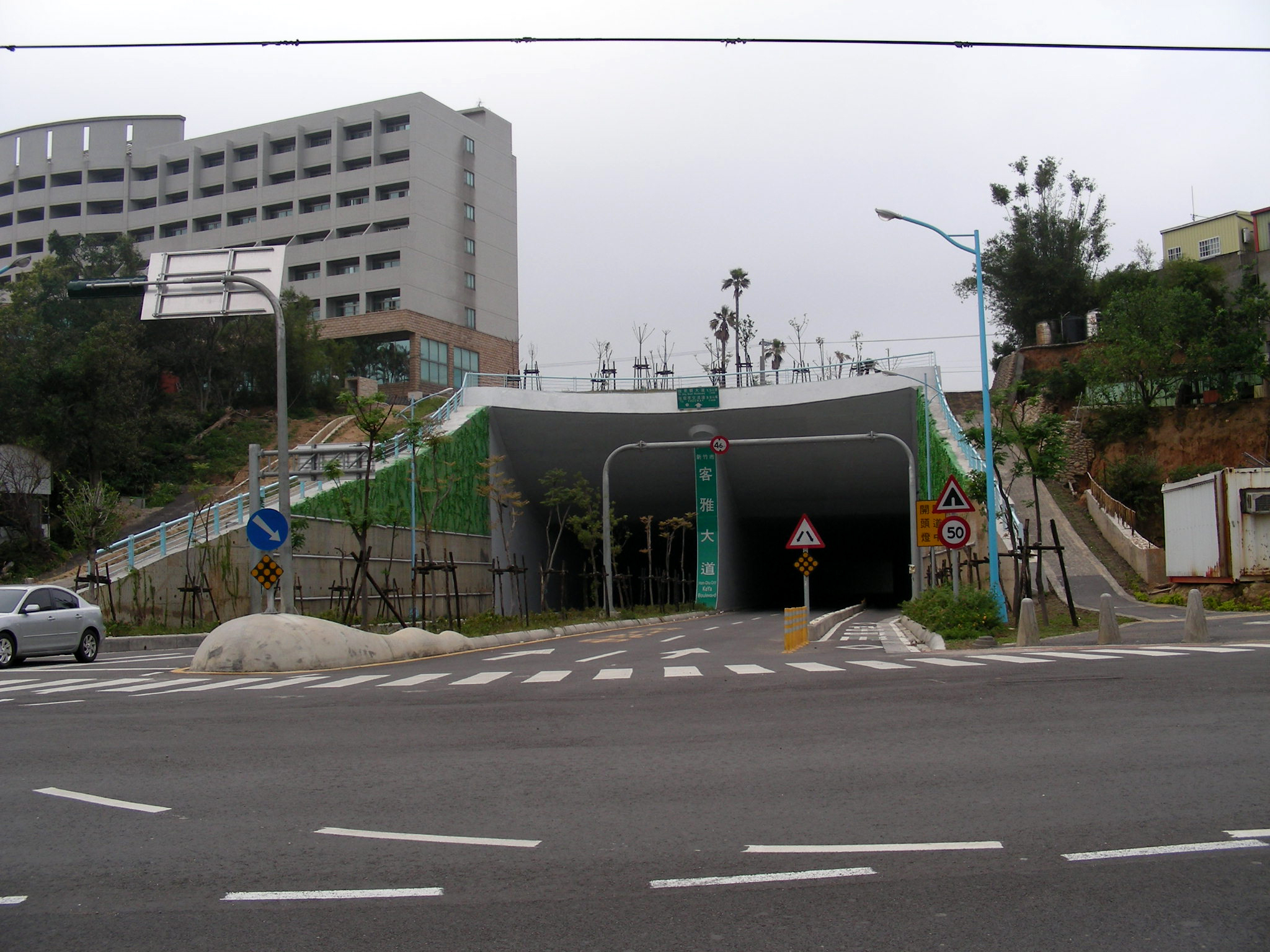 The tunnel of "Ke-Ya" Boulevard from the intersection of Minghu Road in Hsinchu City,Taiwan